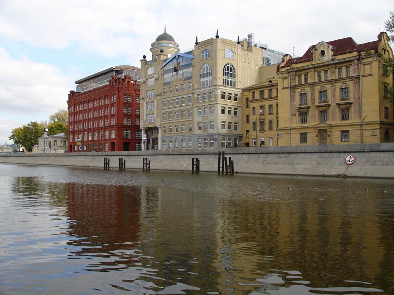 Yakimanskaya Embankment, converted factory buildings, Moscow, Russia